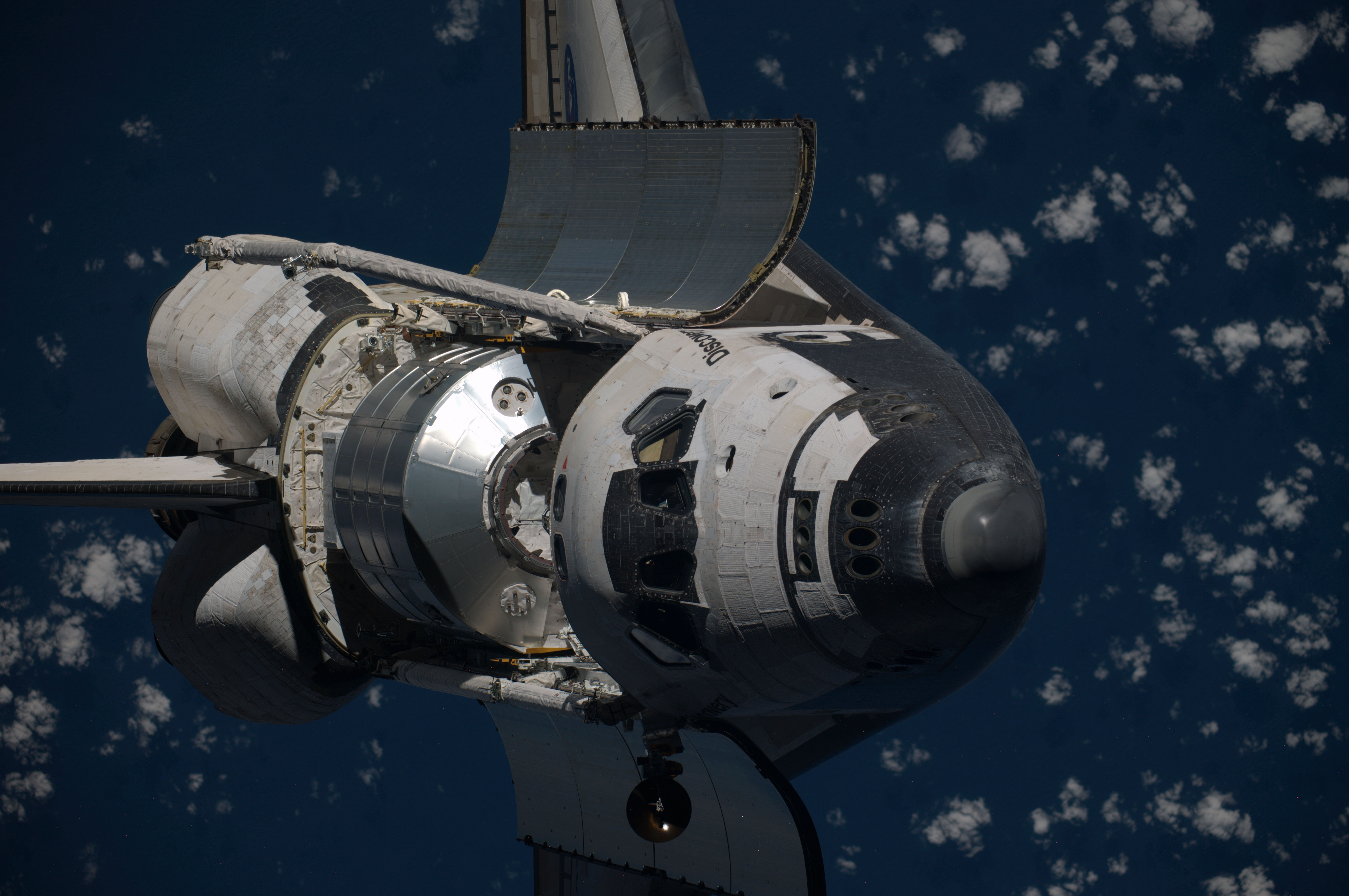 Leonardo at the Ready This is one of a series of 800mm survey digital still photographs of the Space Shuttle Discovery as it performed a full 360-degree backflip. The series of photos were made by the Expedition 20 crew onboard the International Space Station as the two spacecraft drew near to each other on STS-128's third flight day. This view shows almost the entire top portion of Discovery, including the Multi-Purpose Logistics Module (Leonardo) in the cargo bay. (This text from NASA web site)